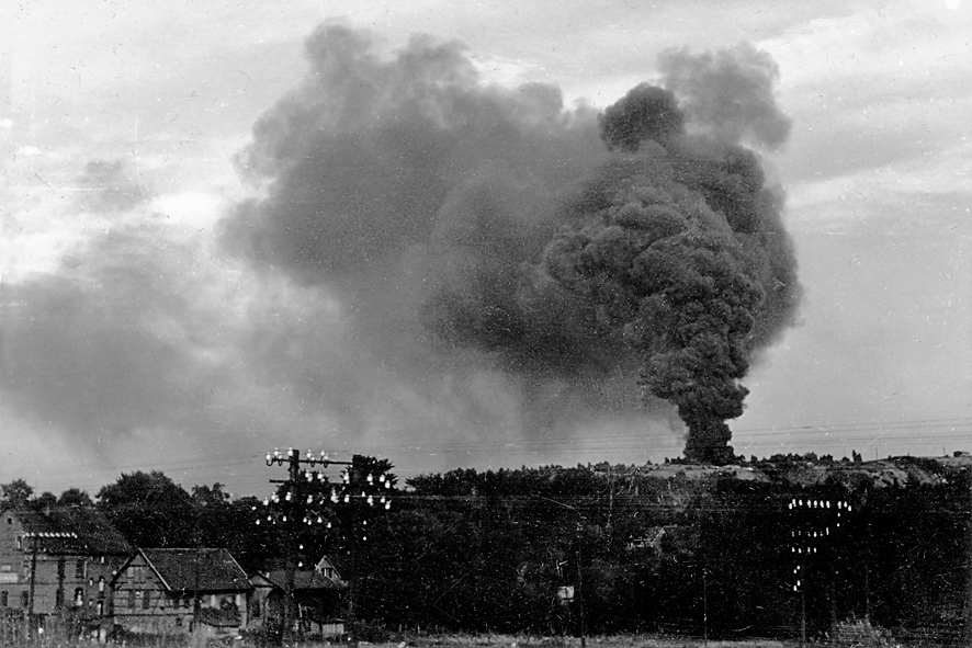 Fire on the slag heap of oil shale at the Messel mine.